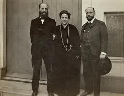 Group photo of Leo, Gertrude and Michael Stein